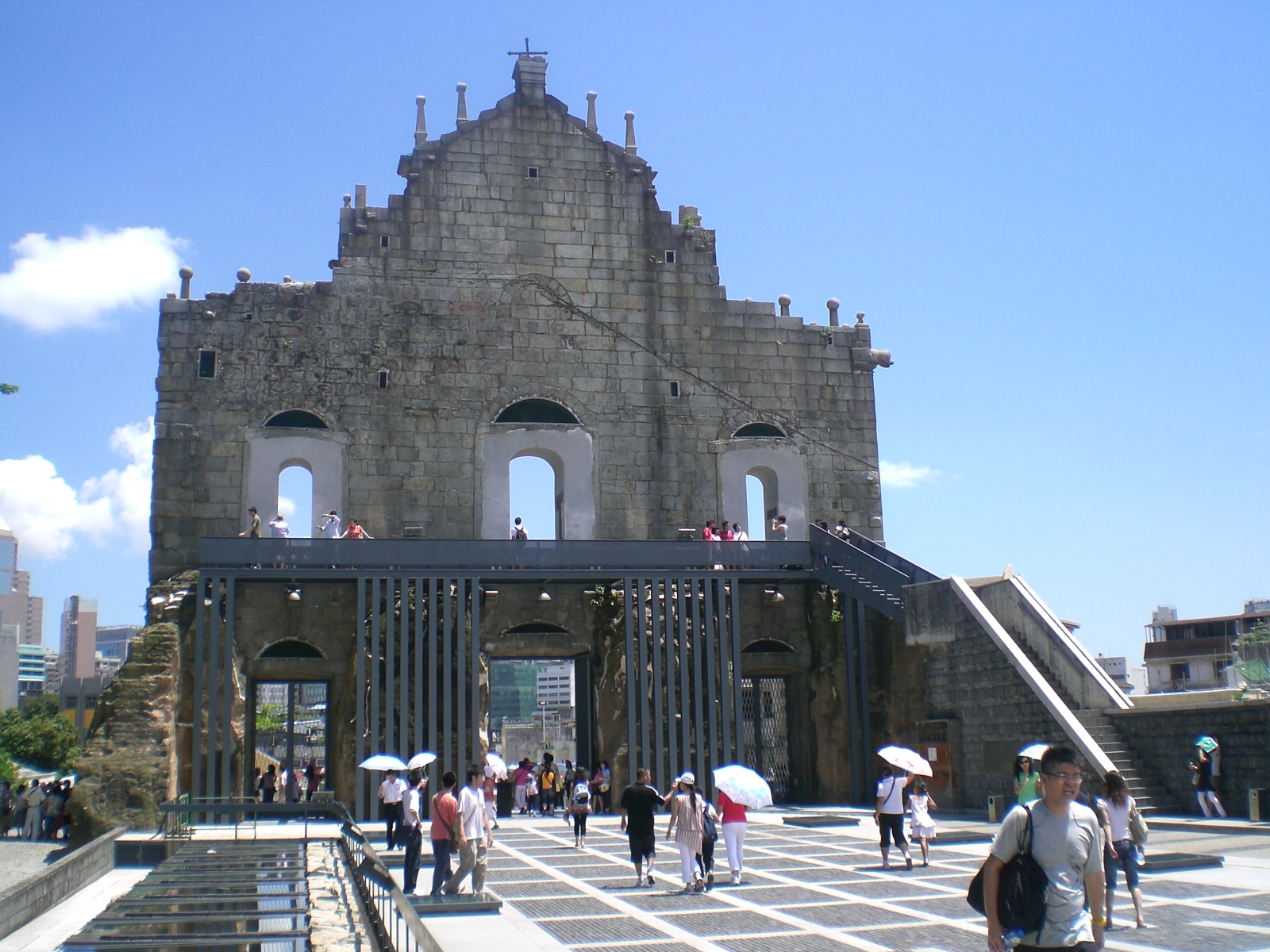 大三巴牌坊, Cathedral of Saint Paul in Macau and 天主教藝術博物館與墓室 O Museu de Arte Sacra e Cripta (Museum of Sacred Art). Photo author= Mo707